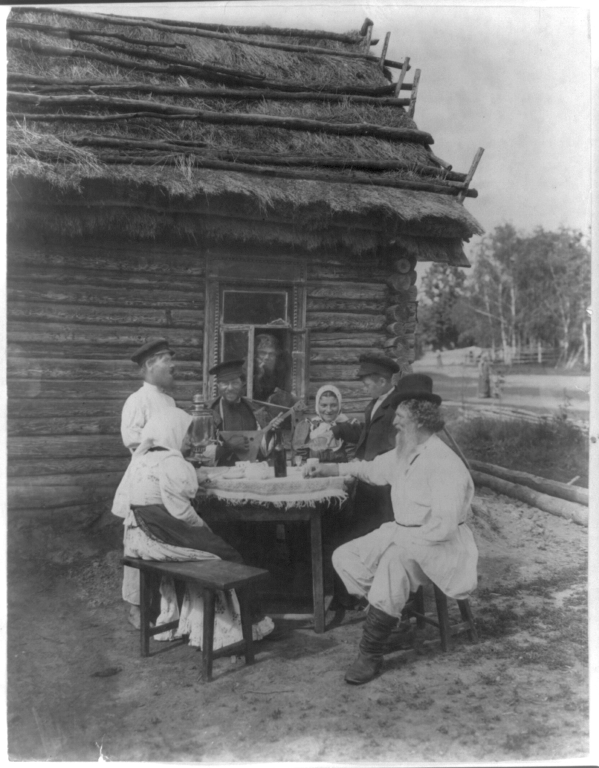 Title: Group of Russian peasants posed at an outdoor table Abstract: Staged genre view includes man with balalaika, samovar on table, boy pouring drink, man peering through window and others seated at table outside a thatched-roof log house. Physical description: 1 photographic print : albumen. Notes: Photographer's name stamped on verso.; Identical photograph in Prokudin-Gorskii album LOT 10332-B, no. 306; copy negative no. LC-USZ62-36590.; Frank and Frances Carpenter Collection (Library of Congress).